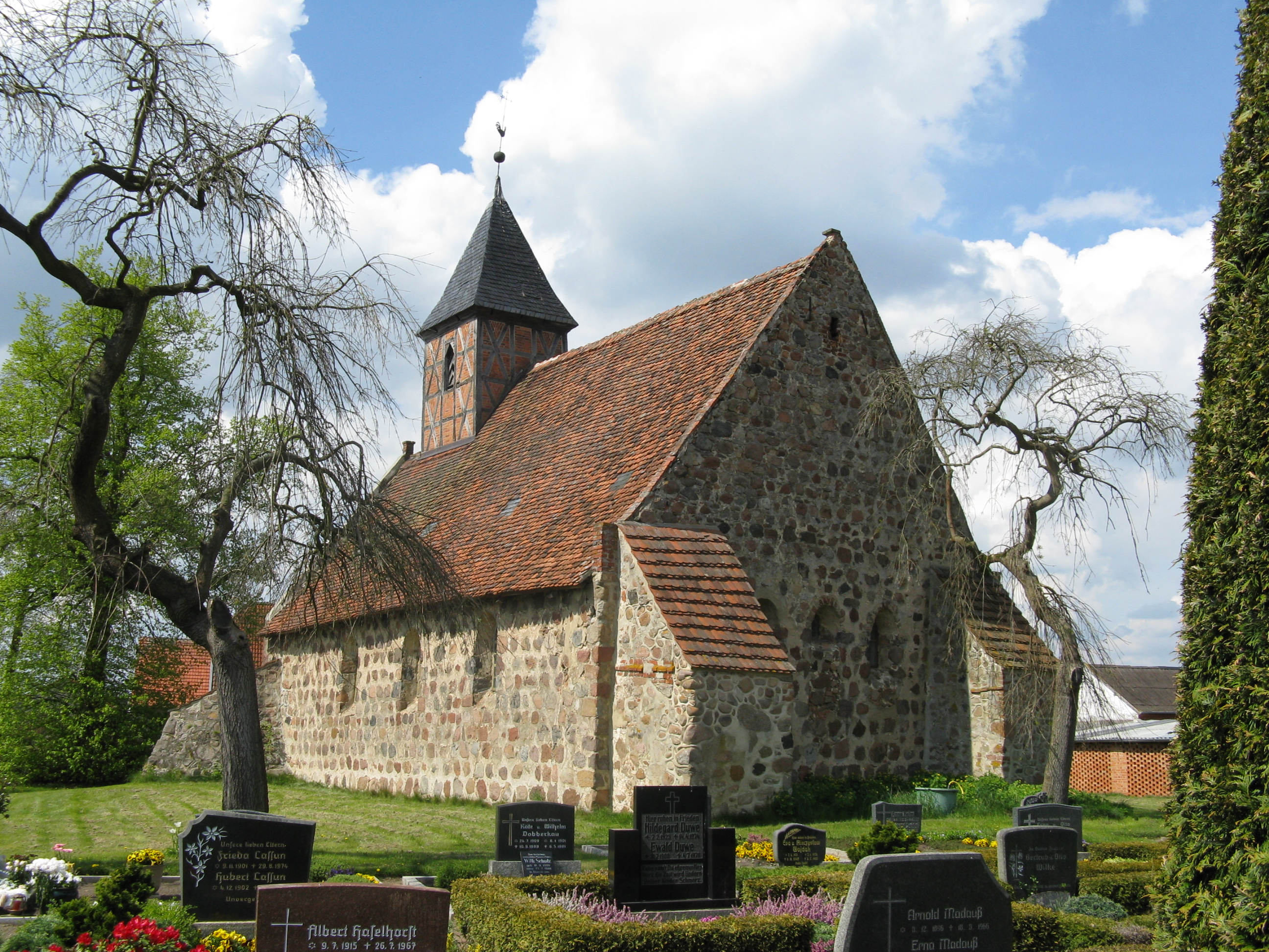 Church in Milow, district Ludwigslust-Parchim, Mecklenburg-Vorpommern, Germany